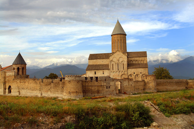 Earliest structures of Alaverdi monastery date back to 6th century. The present day surviving cathedral is part of an 11th century Georgian Orthodox monastery. Located in 20 km from Telavi, in the Kakheti region of Eastern Georgia. The Monastery was founded by the Assyrian monk Joseph (Yoseb, Amba) Alaverdeli, who came from Antioch and settled in Alaverdi, then a small village and the former pagan religious center dedicated to moon. At the beginning of XI century Kakhetian King Kvirike the Great built a cathedral in the place of a small church of St. George, which today is know as Alaverdi Cathedral. Alaverdi is the second tallest, after the recently consecrated Tbilisi Sameba Cathedral, religious building in the country and its height is more than 55 meters.